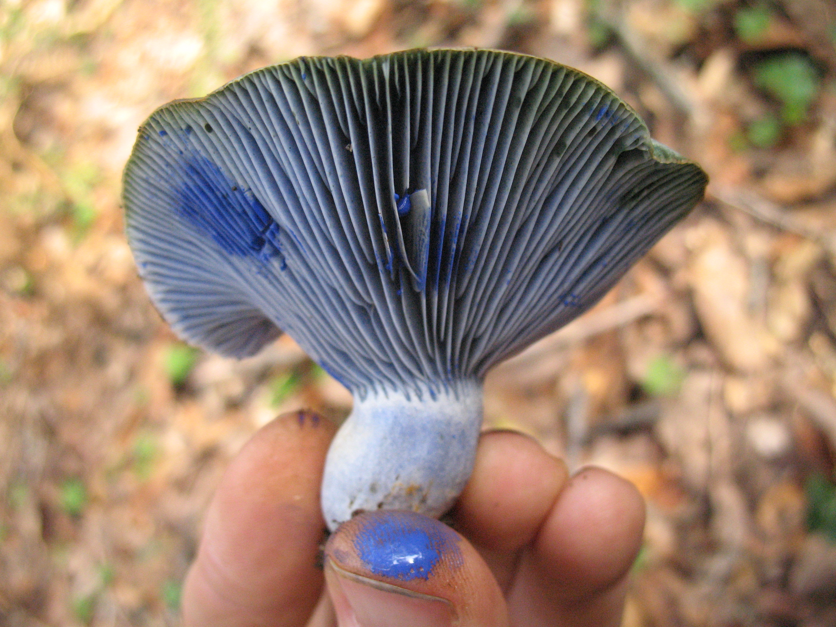 The edible mushroom Lactarius indigo (Schwein.) Fr. Photographed in Jalisco, Mexico. "Notes: I ate these for dinner. They were very good."